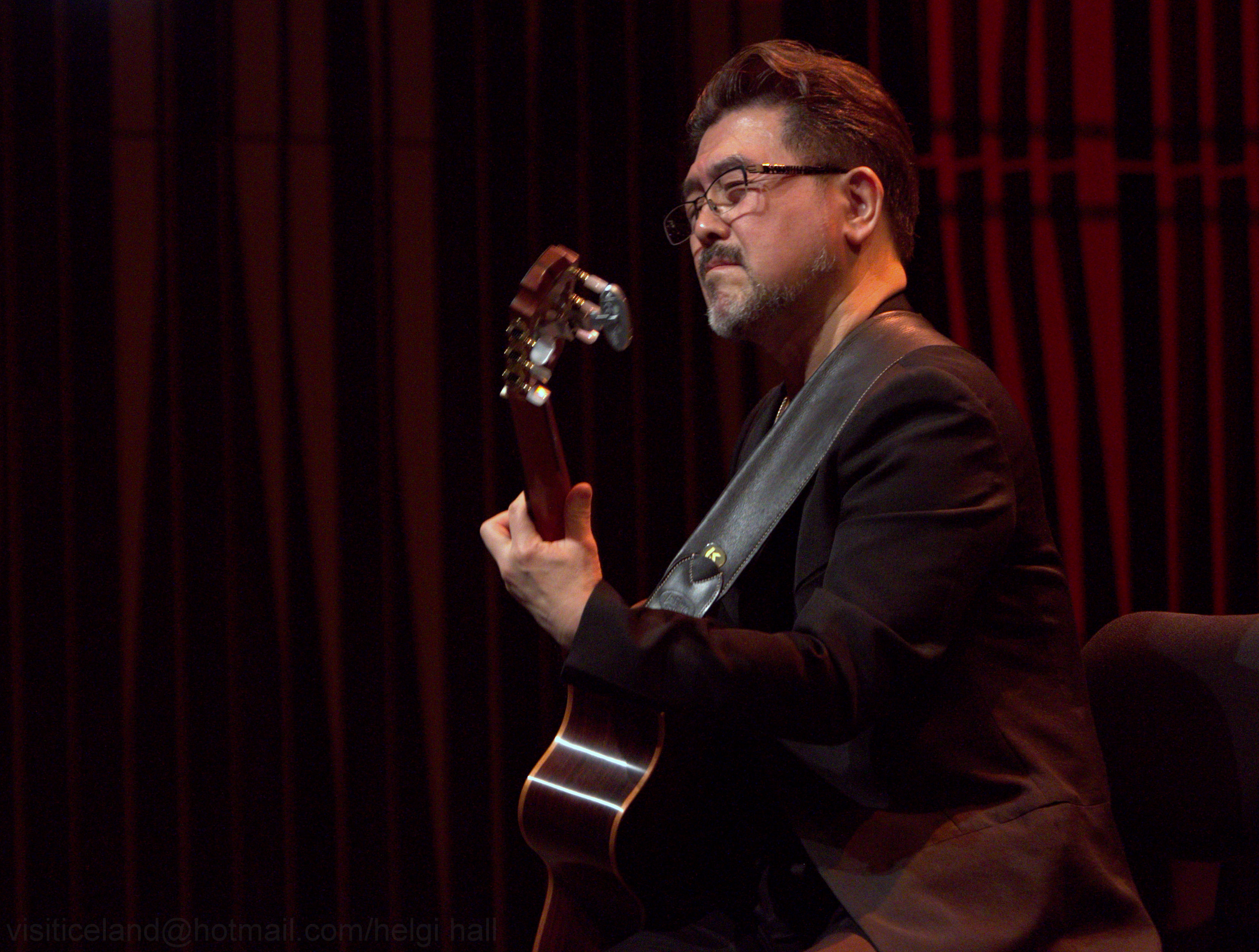 Kazumi Watanabe (渡辺香津美) is a jazz and jazz fusion guitarist, from Tokyo, Japan. He was born on October 14, 1953.